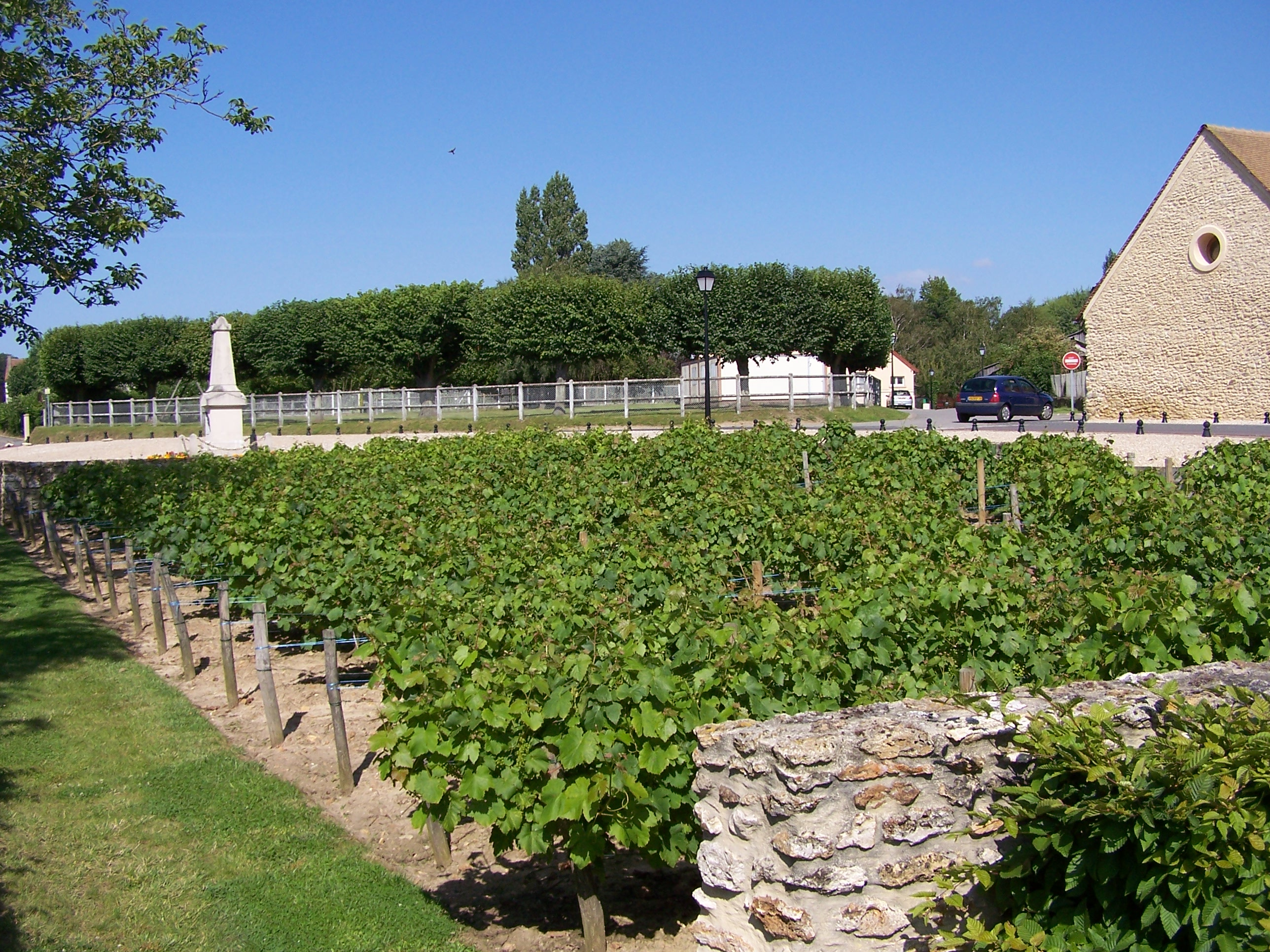 Vineyard of Tacoignières (Yvelines, France)